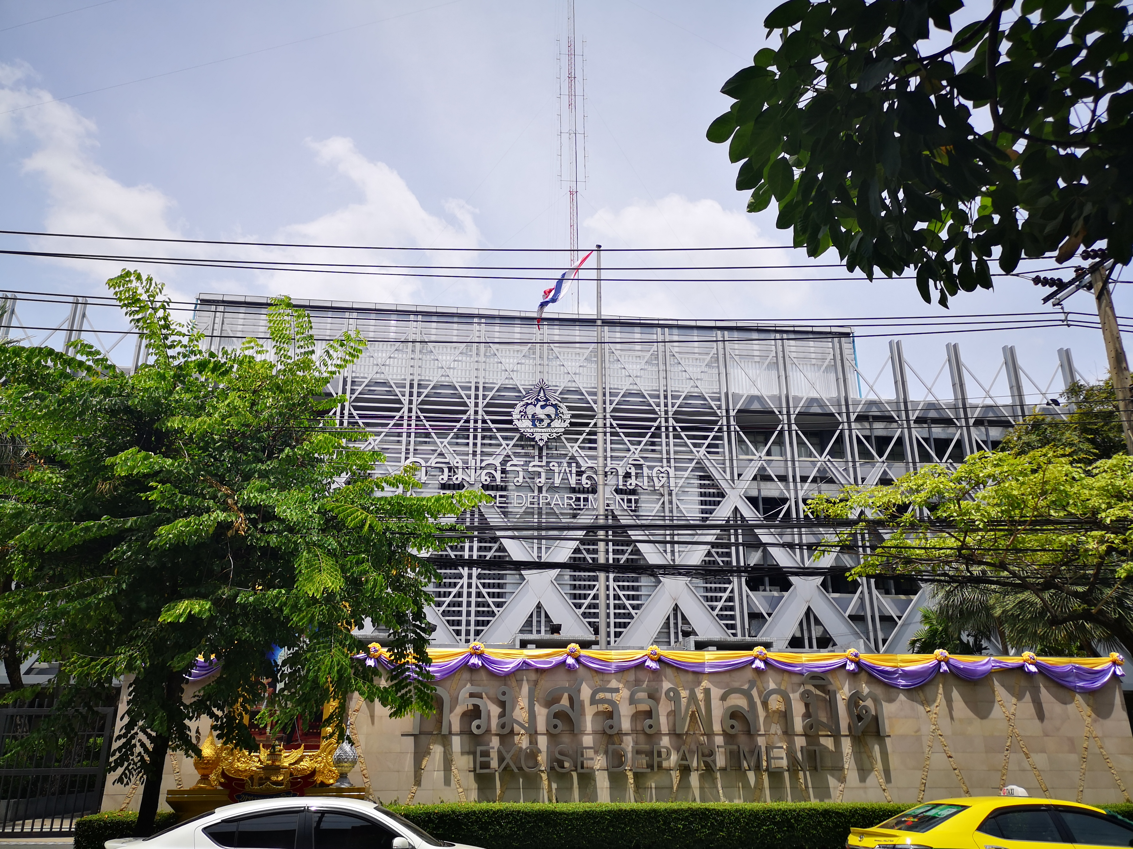 The Excise Department of Thailand